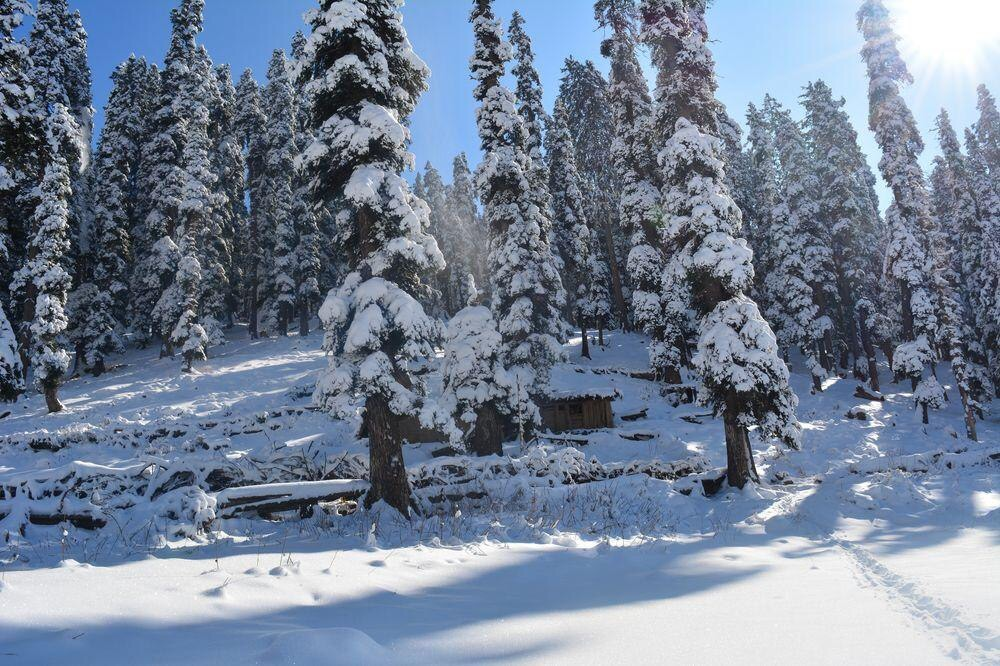 Trees in snow in Pahalgam winter of 2015.